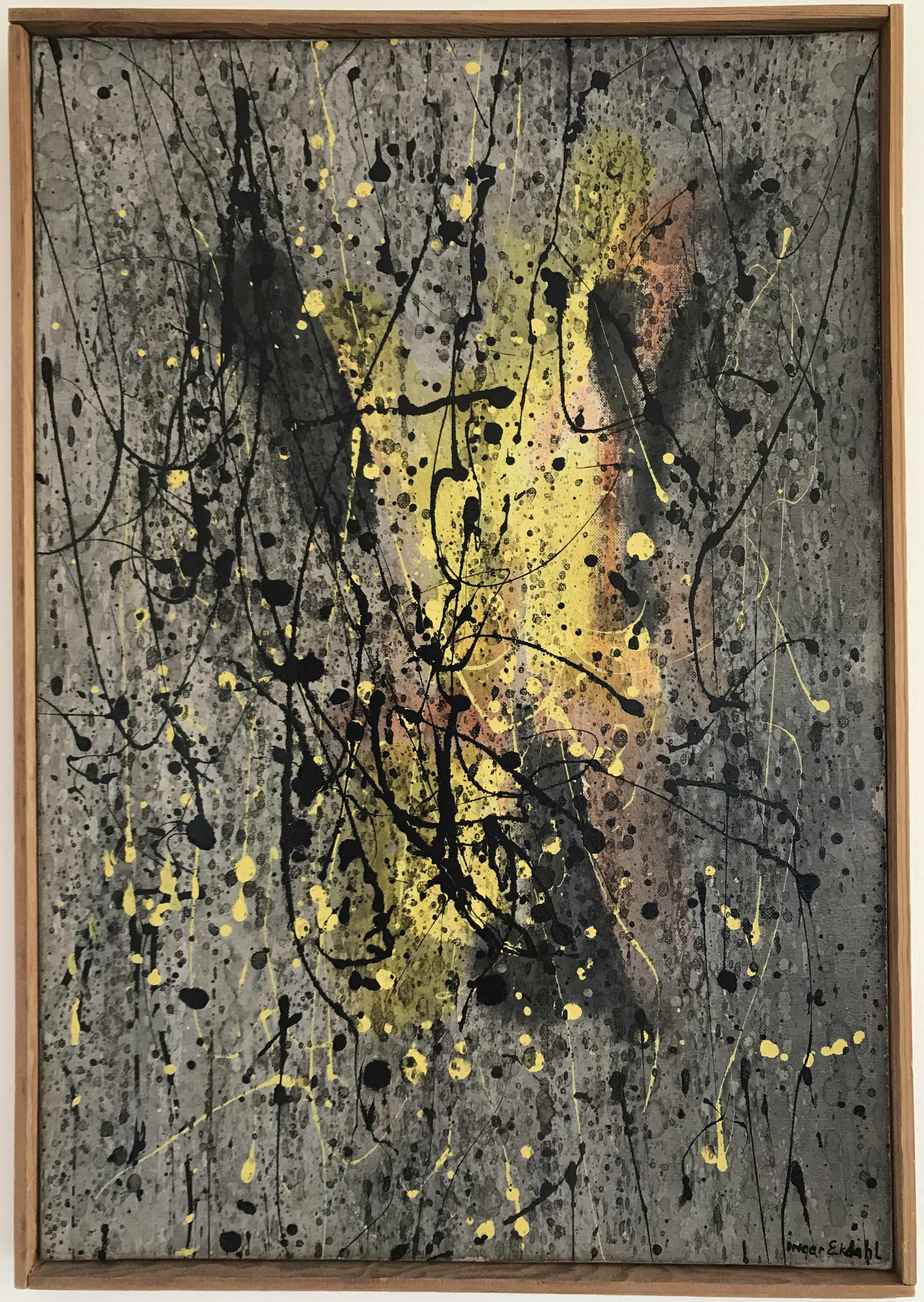 Inger Ekdahl, Untitled, 1960, Oil on canvas, 55×38 cm, Private collection. Photo: Artesa2, May 22, 2020.